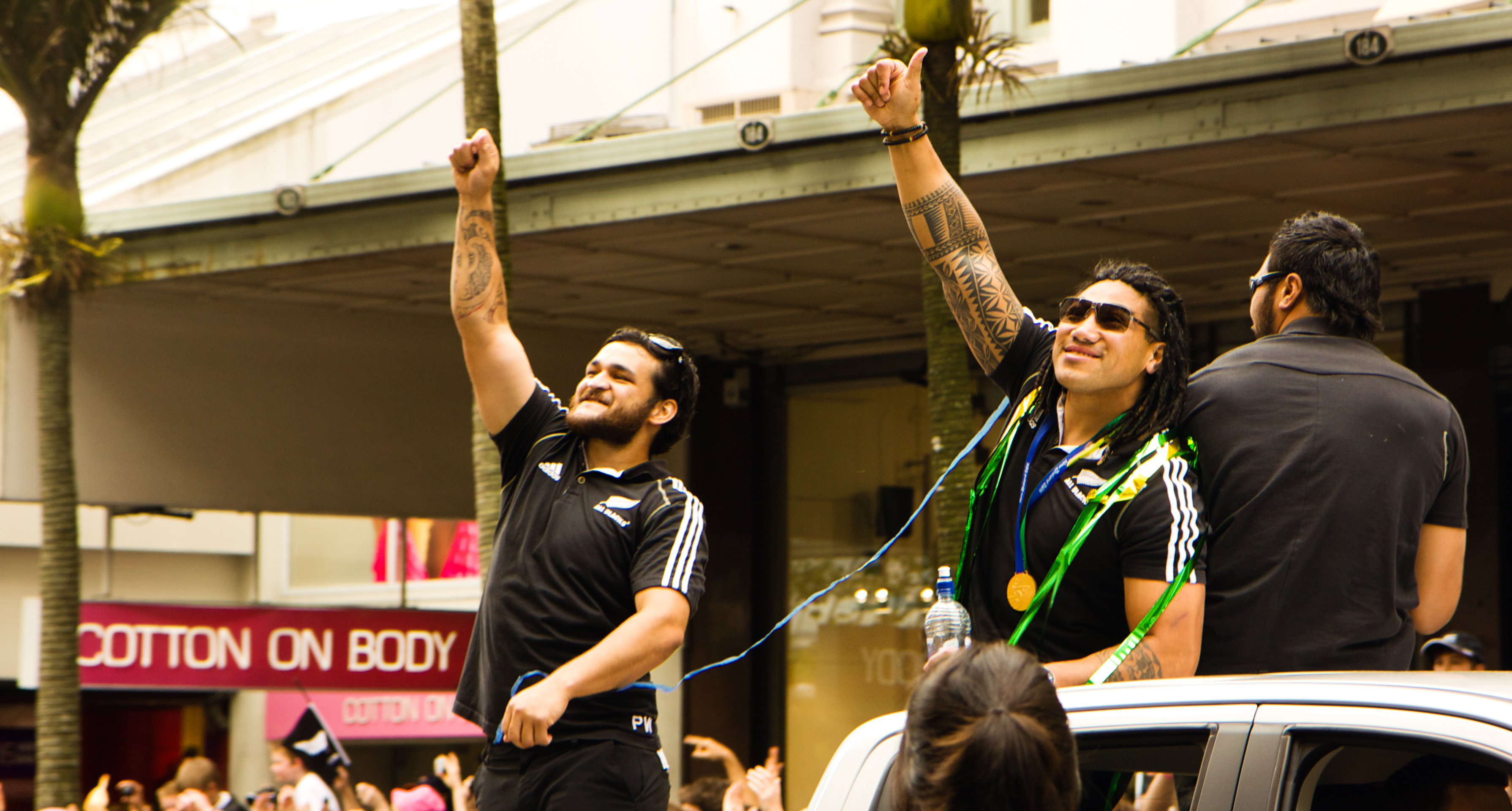 All Black rugby players Piri Weepu (left) and Ma'a Nonu during parade in Auckland after winning by New Zealand national team 2011 Rugby World Cup.